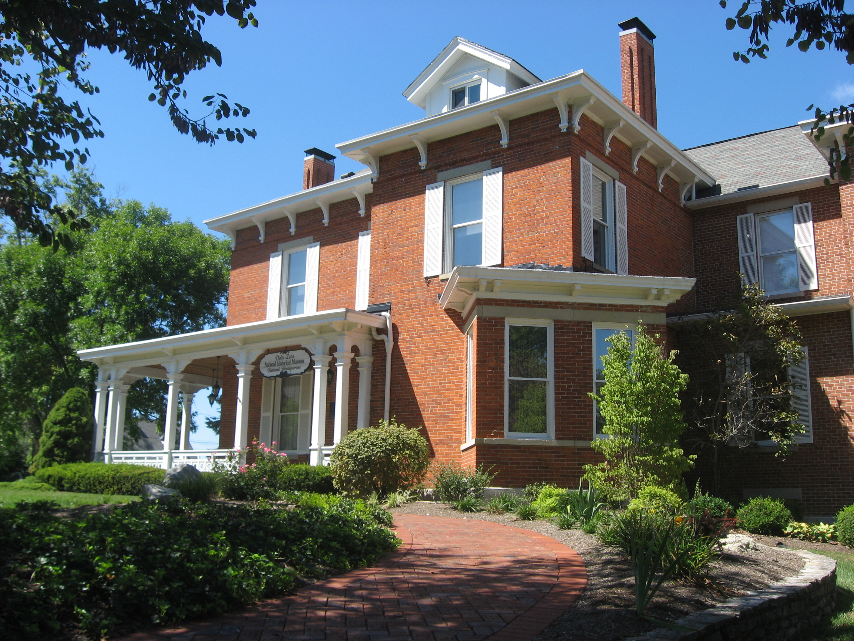 Front of the Delta Zeta headquarters and museum, located at 202 E. Church Street in Oxford, Ohio, United States. Part of the property occupies the site of the Henry Maltby House, which is listed on the National Register of Historic Places despite having been destroyed. Delta Zeta website.